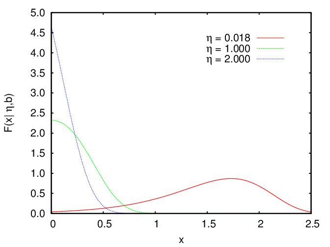 Gompertz Distribution